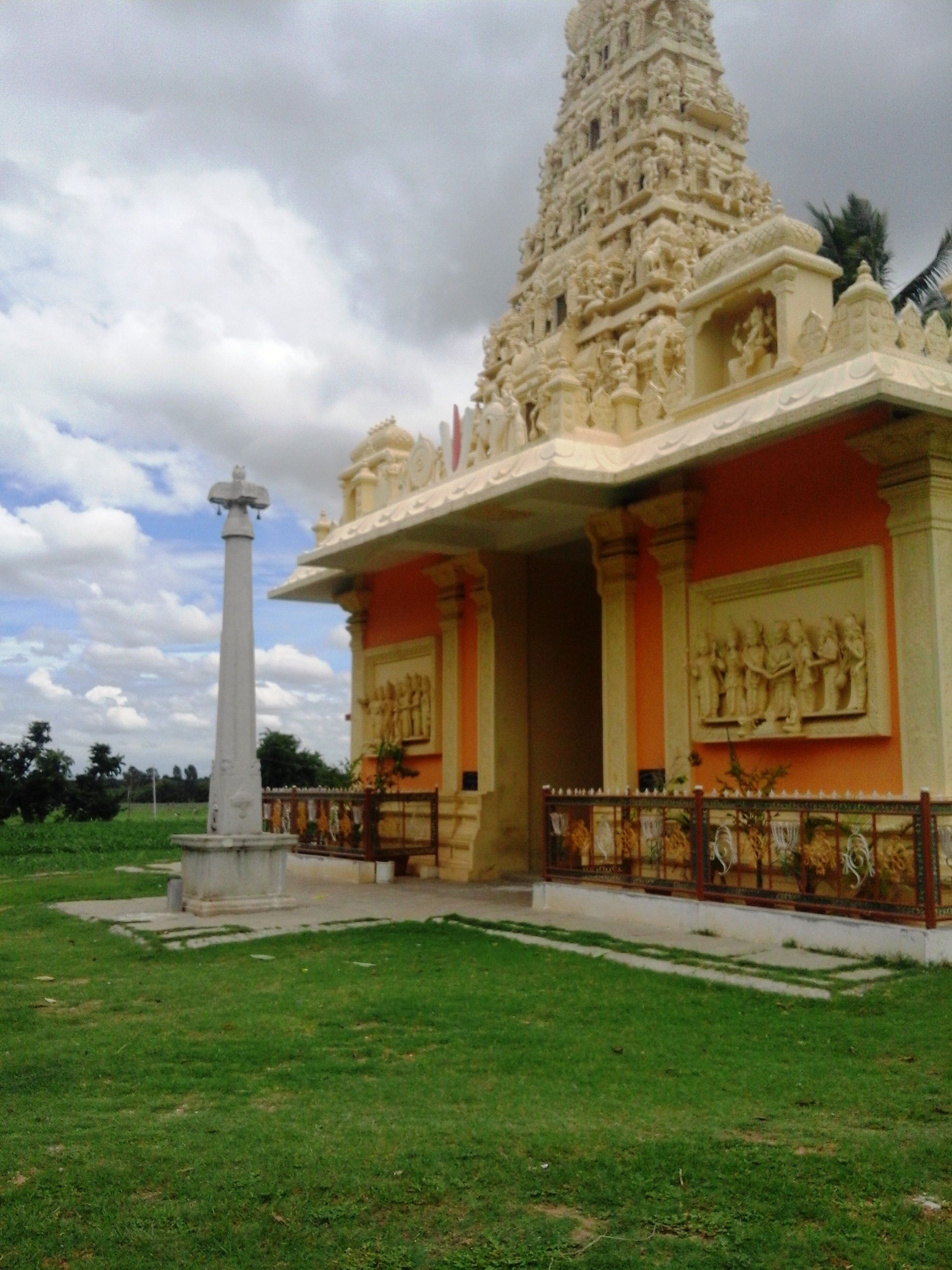 Tirumakudal Narsipur Town, Mysore district, Karnataka state, India.